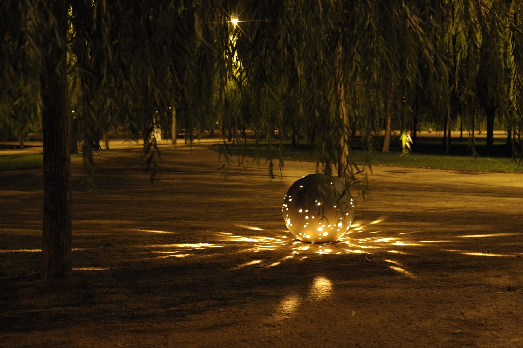 Nightshot of the public park beside the Hotel ME in Poblenou, Barcelona.